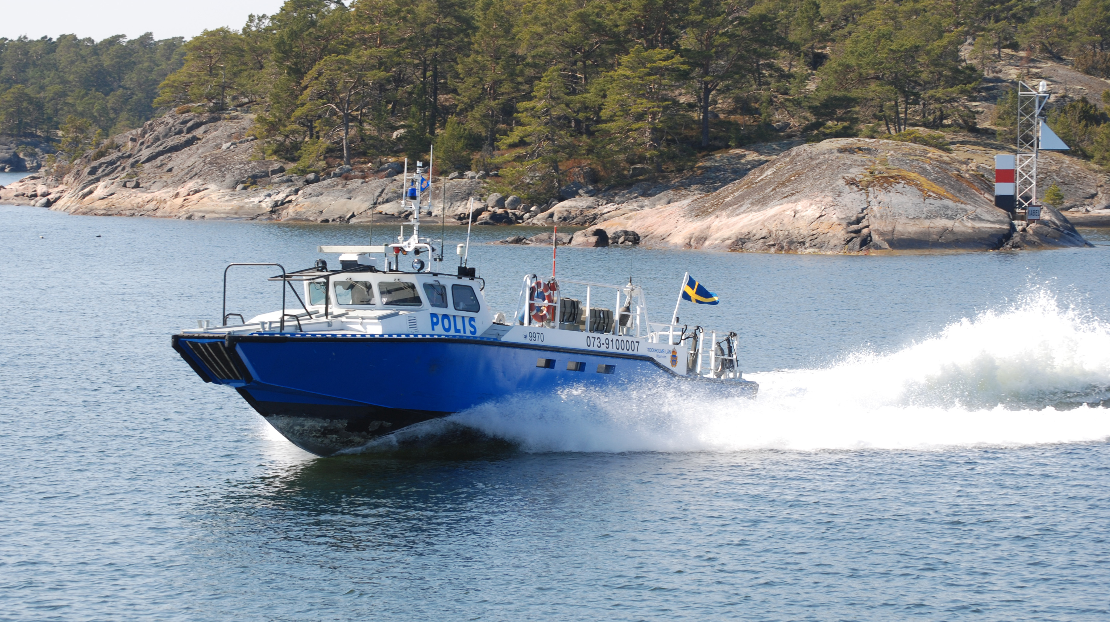 Swedish police boat at speed in the Stockholm archipelago near Sandhamn, with the Smörasken lighthouse and island of Matsholmen behind.